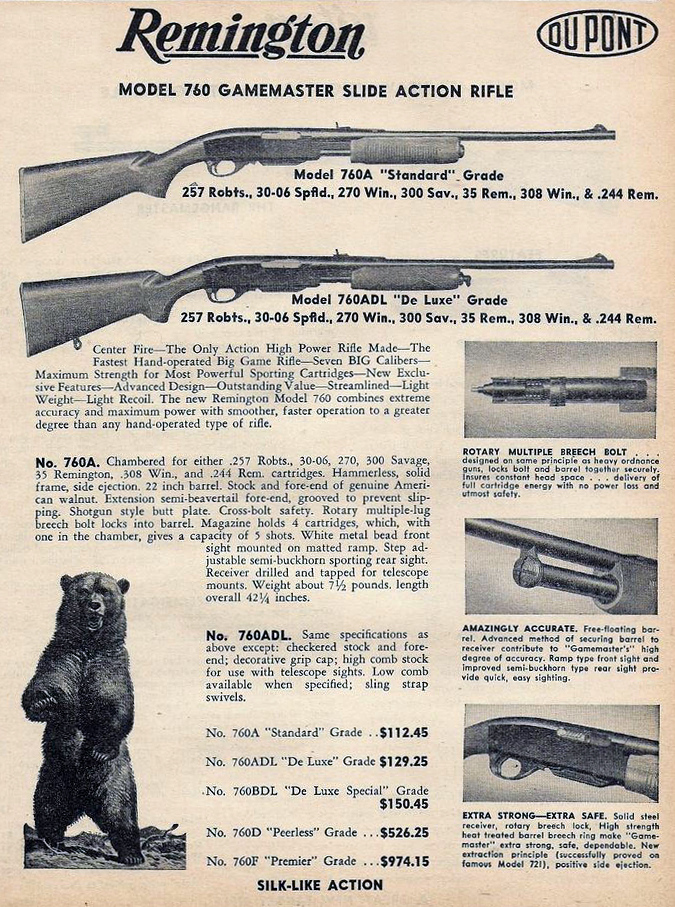 DuPont Remington 760 ad. Includes a really mean looking grizzly bear.